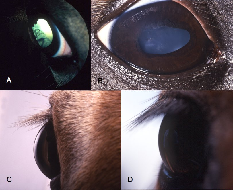 Clinical signs of MCOA syndrome. A. Oblique profile images of the lateral anterior segment of the right eye of a Rocky Mountain horse. A multiloculated cyst arising from the anterior ciliary body is present. B. Photograph of the right eye of a Rocky Mountain horse with ectropion uvea, dyscoria, cataract, and lens subluxation. The granula iridica is hypoplastic, the pupil is misshapen, and complete circumferential ectropion uvea is present. Nuclear cataract of the nuclear-cortical junction is present. Vitreous is present in the anterior chamber between the iris and lens secondary to posterior ventral lens subluxation. C. Profile photograph of a Rocky Mountain Horse with Cornea Globosa. Note the anterior protrusion of the cornea and large corneal diameter. D. Profile photograph of a Rocky Mountain Horse with a normal cornea. Note the normal corneal curvature and diameter.